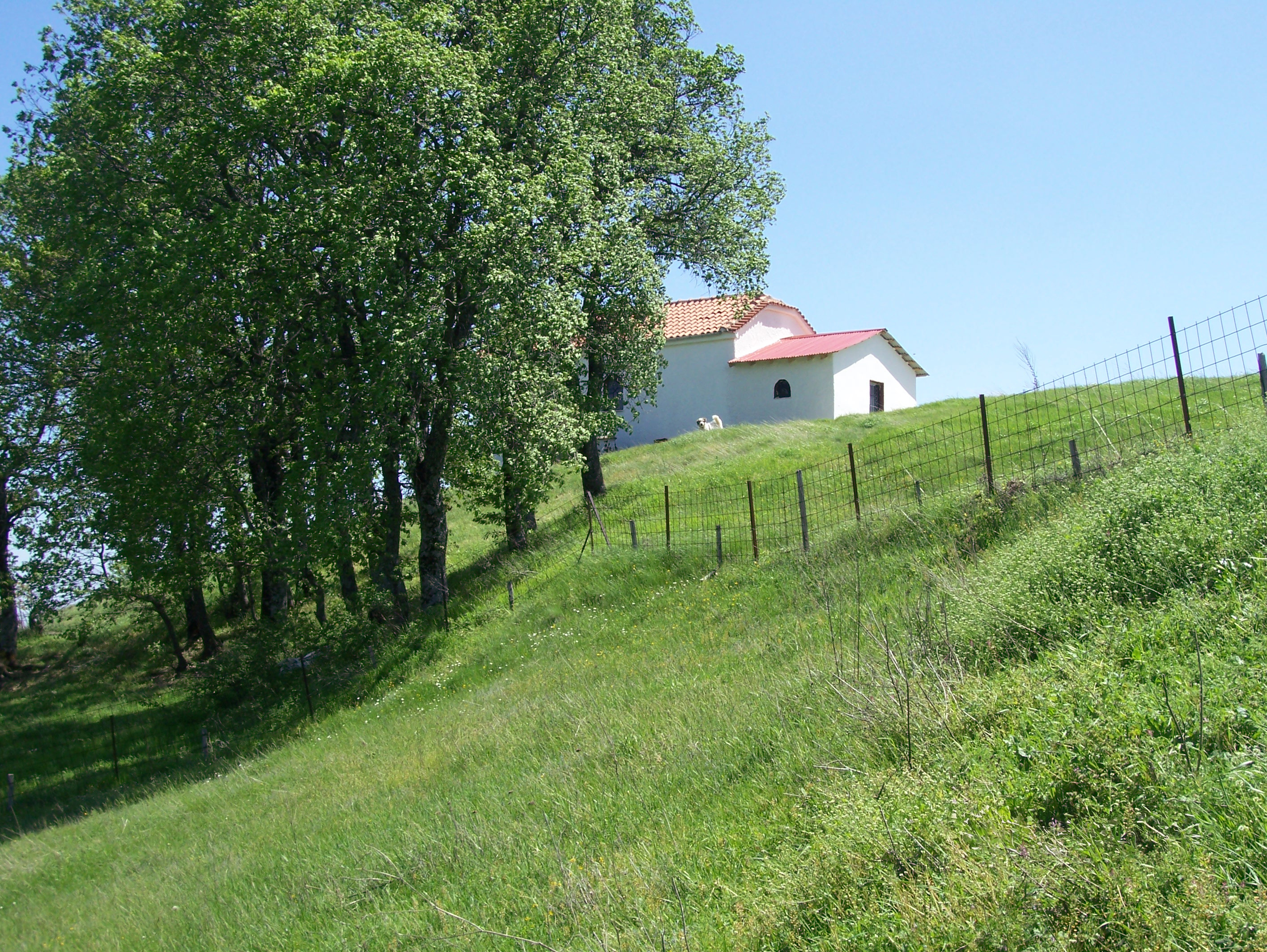 Mavronoros St George Church